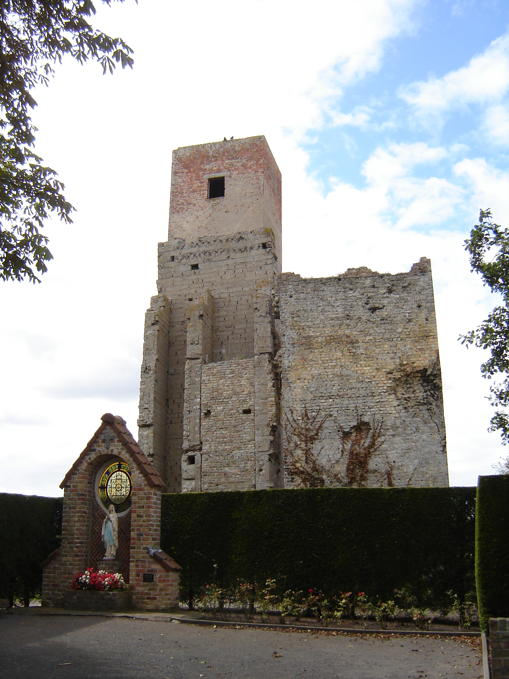 Observation post from World War I, in Pervijze. Built by Belgian army. Added on to by German army in World War II. Pervijze, Diksmuide, West Flanders, Belgium